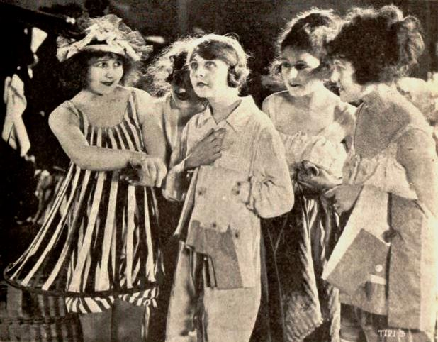 Still from the American comedy drama film The Vamp (1918) with Enid Bennett, the other actresses unidentified, on page 29 of the July 27, 1918 Exhibitors Herald.